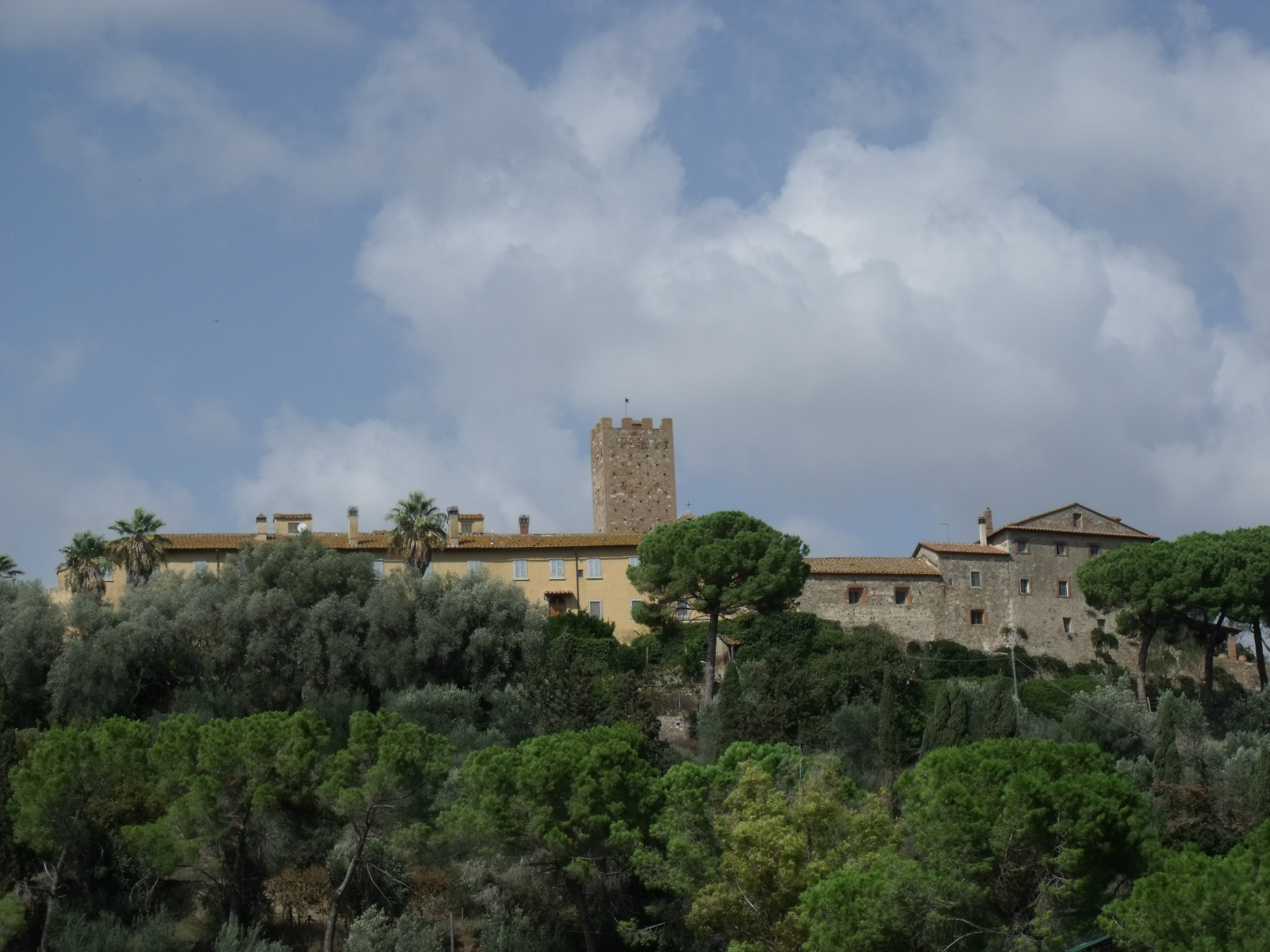 Marsiliana, hamlet of Manciano, Maremma, Province of Grosseto, Tuscany, Italy